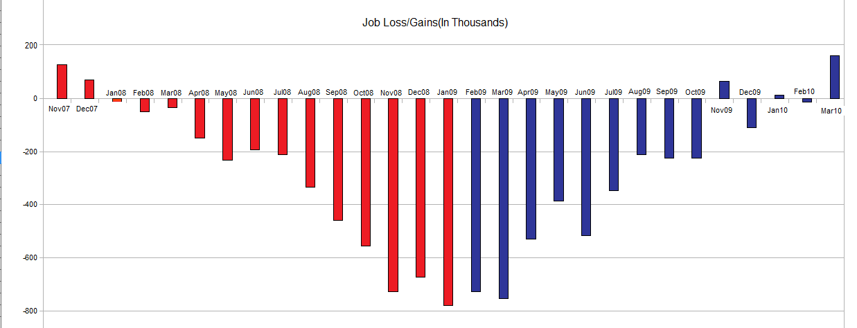 Job loss-gain chart. Data from BLS website here: ID=CES0000000001 Data is from November 2007 through March 2010. Chart created in Calculator